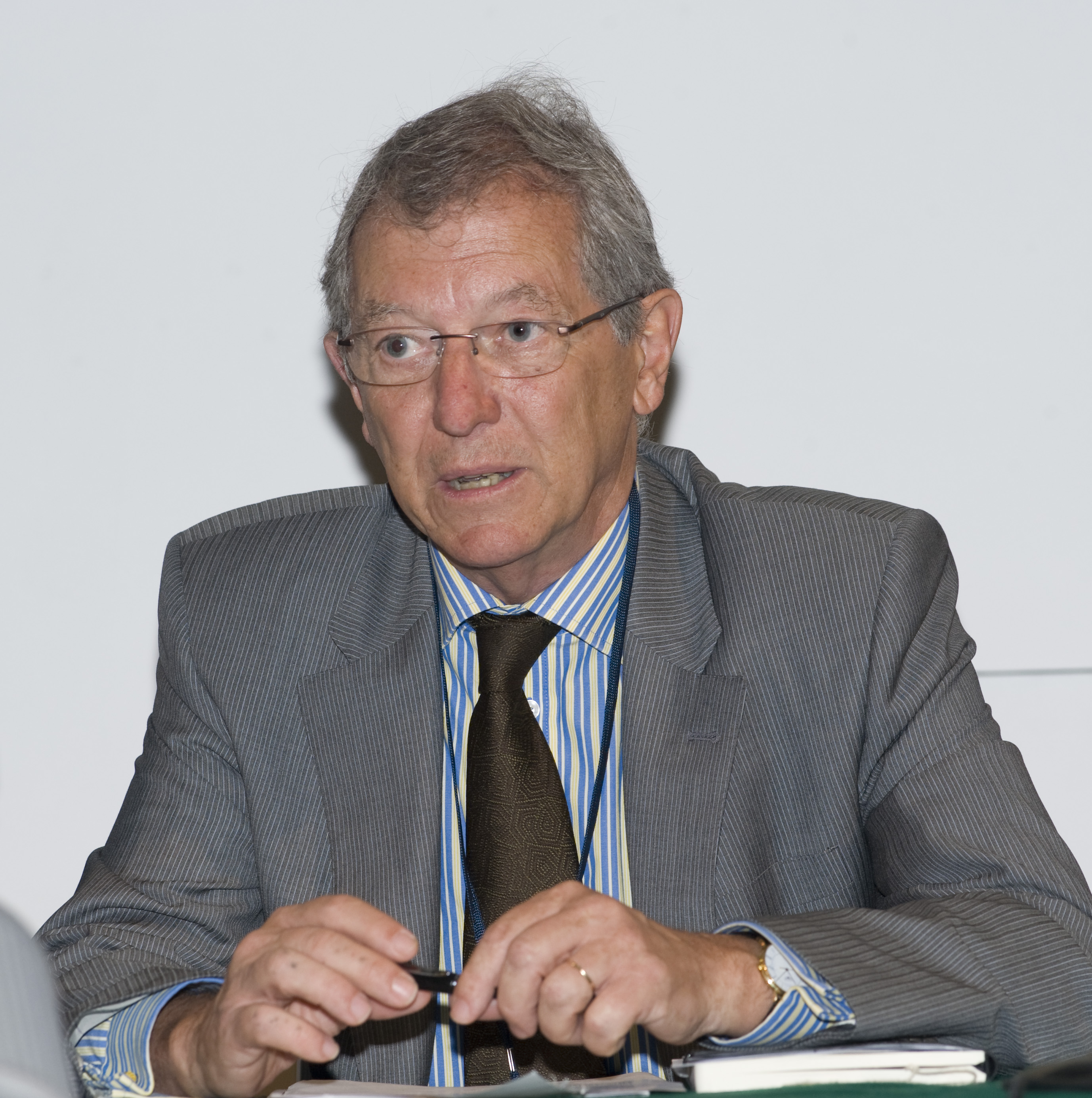 Sir David King